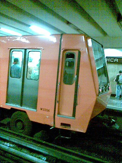 An NC-82 train of Mexico City's metro system.